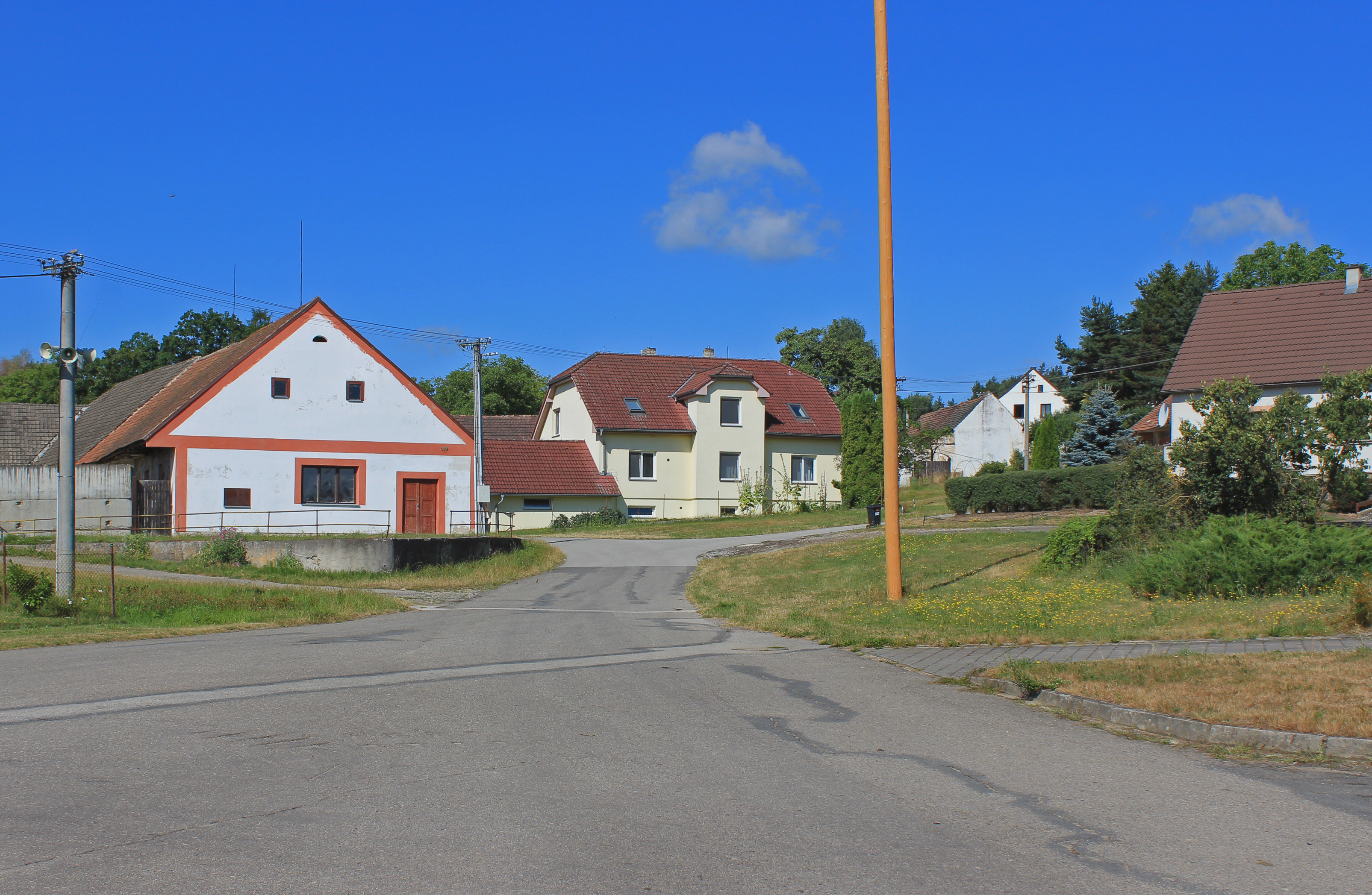 Common in Velký Ratmírov , Czech Republic.